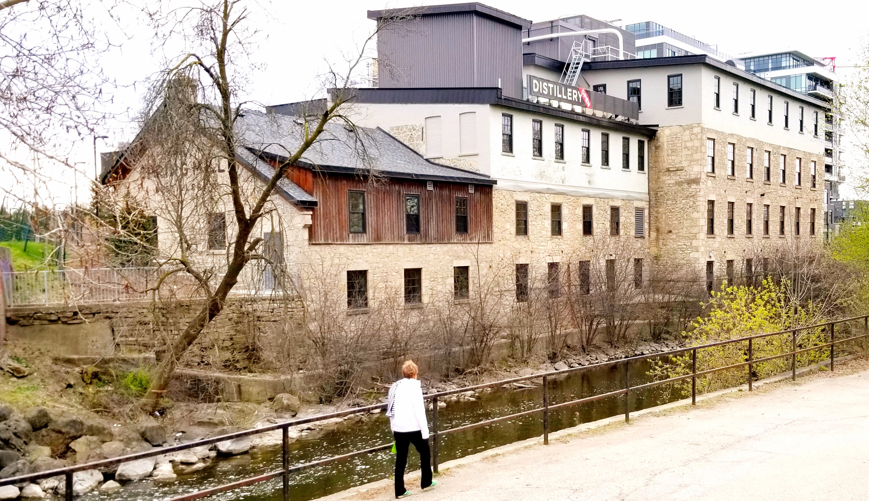 The Spring Mill Distillery in a part of the defunct Allan's Mill built in 1850, Guelph